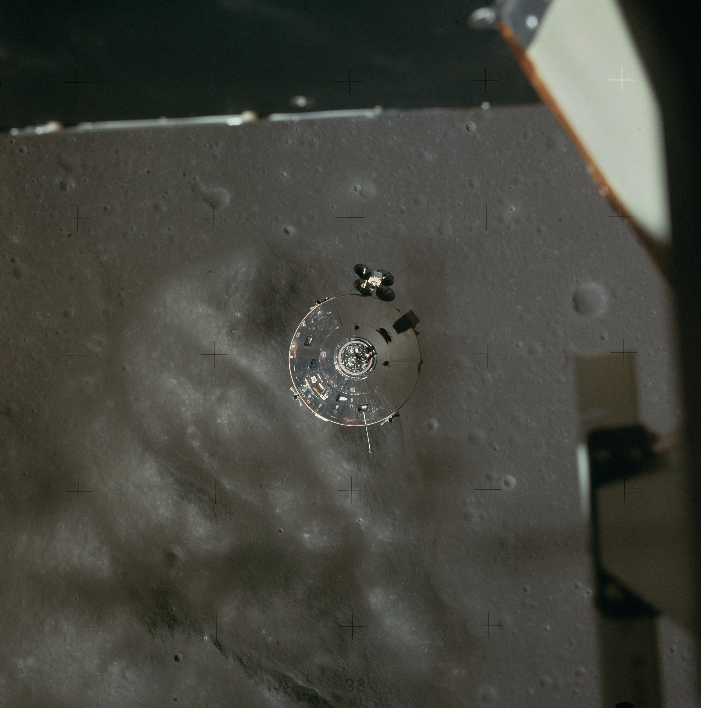 This is figure 3-5 of the Apollo 15 Preliminary Science Report (NASA SP-289, 1972), which has the following caption: The CSM is photographed through the LM window during stationkeeping and just before powered descent initiation. The eastern edge of the Sea of Serenity, south of the crater le Monnier, is below the spacecraft; north is to the right.